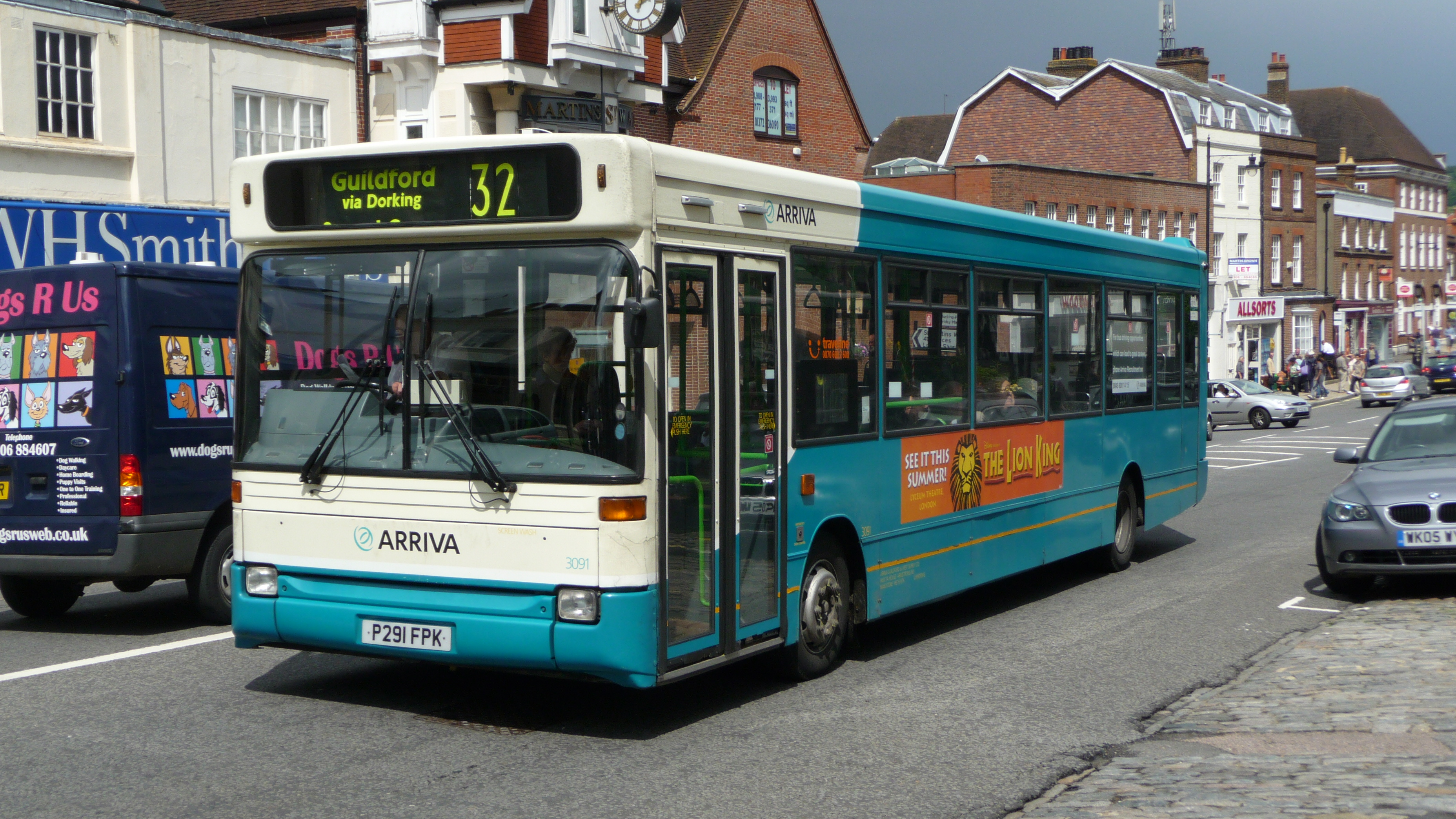 Arriva Guildford & West Surrey 3091 (P291 FPK), a Dennis Dart SLF/Plaxton Pointer, in Dorking High Street, Dorking, Surrey, on route 32.